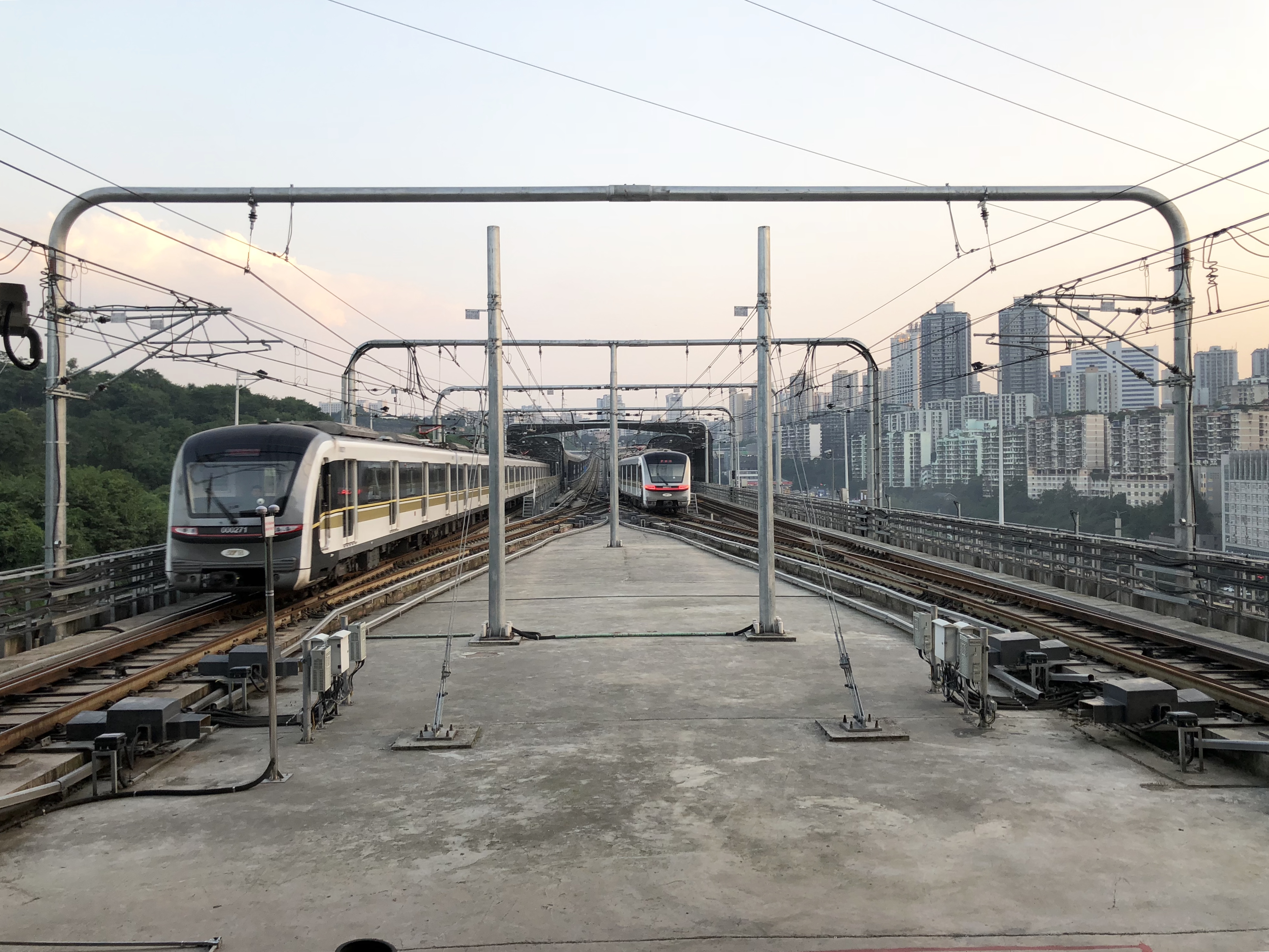 The railway junction that consists of a scissors crossover at Luojiaba station, a metro station of Chongqing Rail Transit in Chongqing, China.